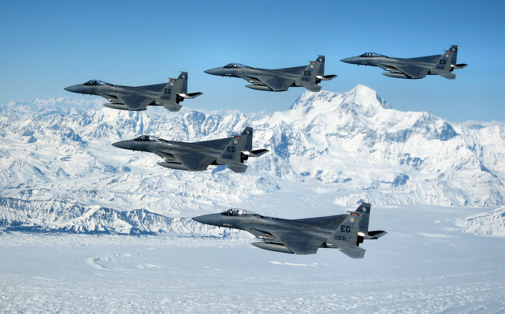 Five 60th Fighter Squadron F-15Cs, from the 33rd Fighter Wing, Eglin Air Force Base, Fla., soar over the mountains ranges of Alaska during their overseas deployment to Elmendorf Air Force Base, Alaska, to participate in Red Flag Alaska 07-1. The exercise is to prepare them for their Air Expeditionary Force 9/10 deployment window. Approximately 16 F-15s and more than 240 Airmen traveled to Elmendorf March 28 as part of the deployment.